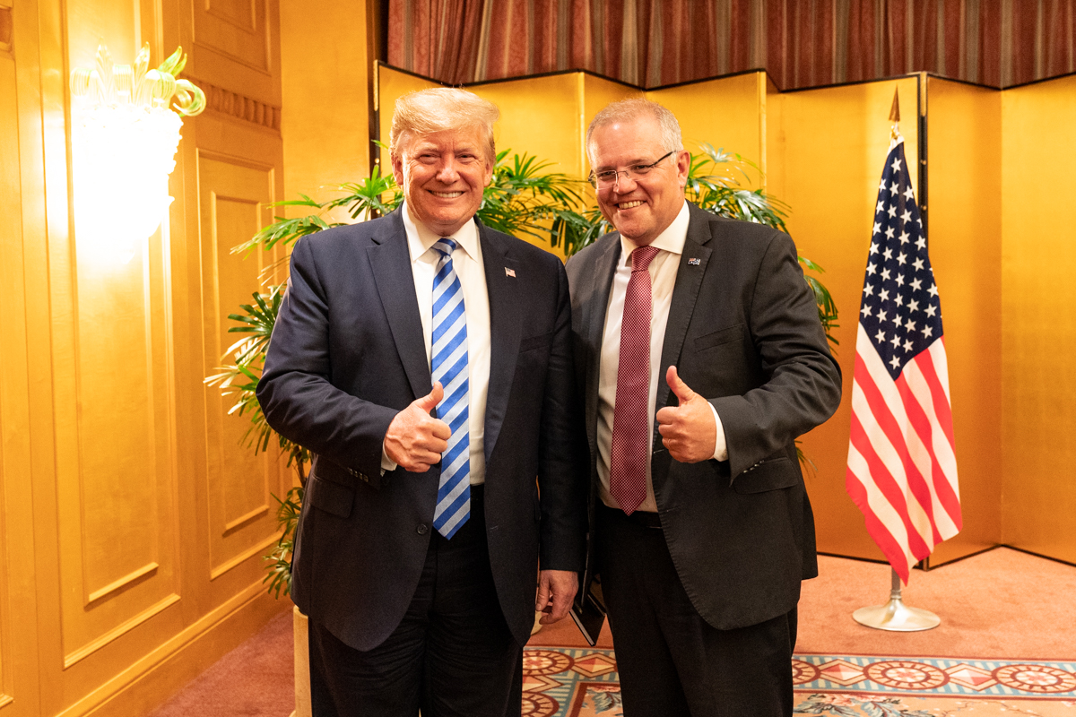 President Donald J. Trump poses for a photo with Australian Prime Minister Scott Morrison following their dinner at the Imperial Hotel Osaka Thursday, June 27, 2019, Osaka, Japan. The two leaders are in Osaka to attend the G20 Japan Summit. (Official White House Photo by Shealah Craighead)